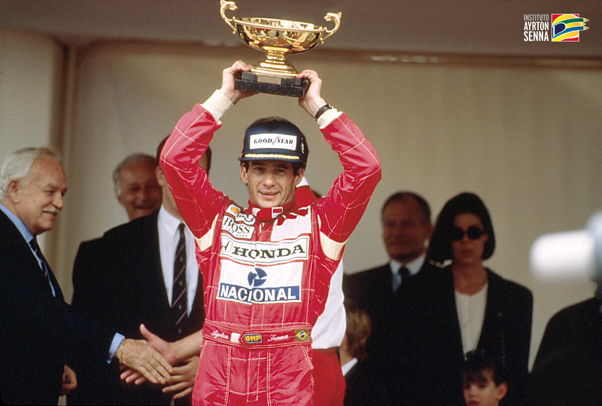 Ayrton Senna at the 1992 Monaco Grand Prix, with Prince Rainier and Princess Stephanie.